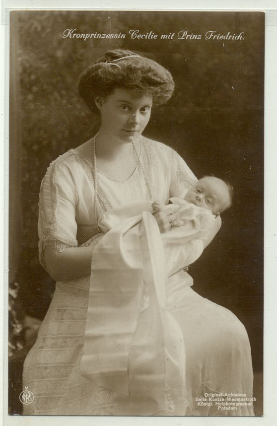 German Crown princess Cecilie presents her fourth son Prince Frederick to the Court photographer Wilhelm Niederastroth, 1911